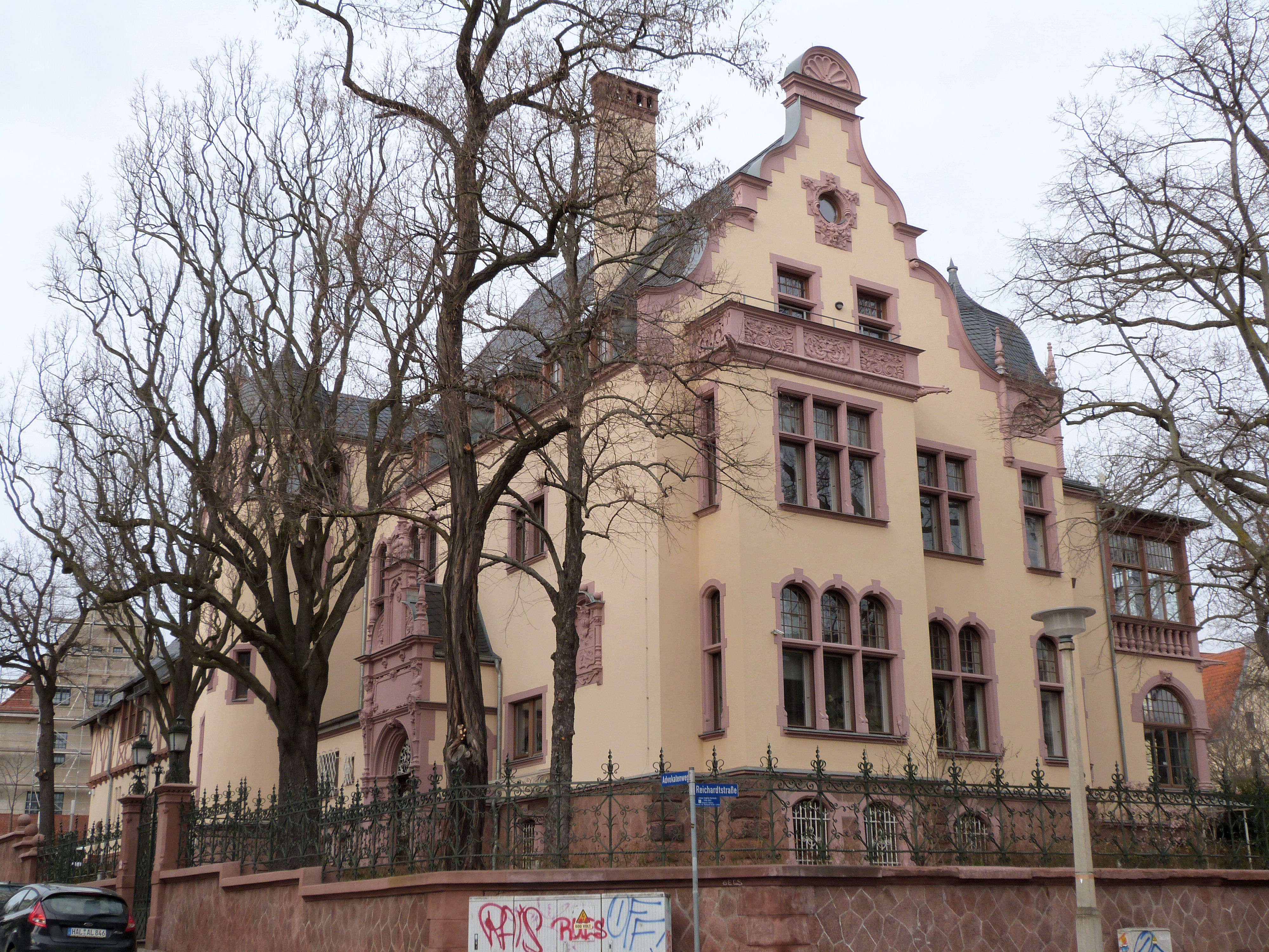 Villa Riedel, Advokatenweg No. 36 in Halle (Saale)